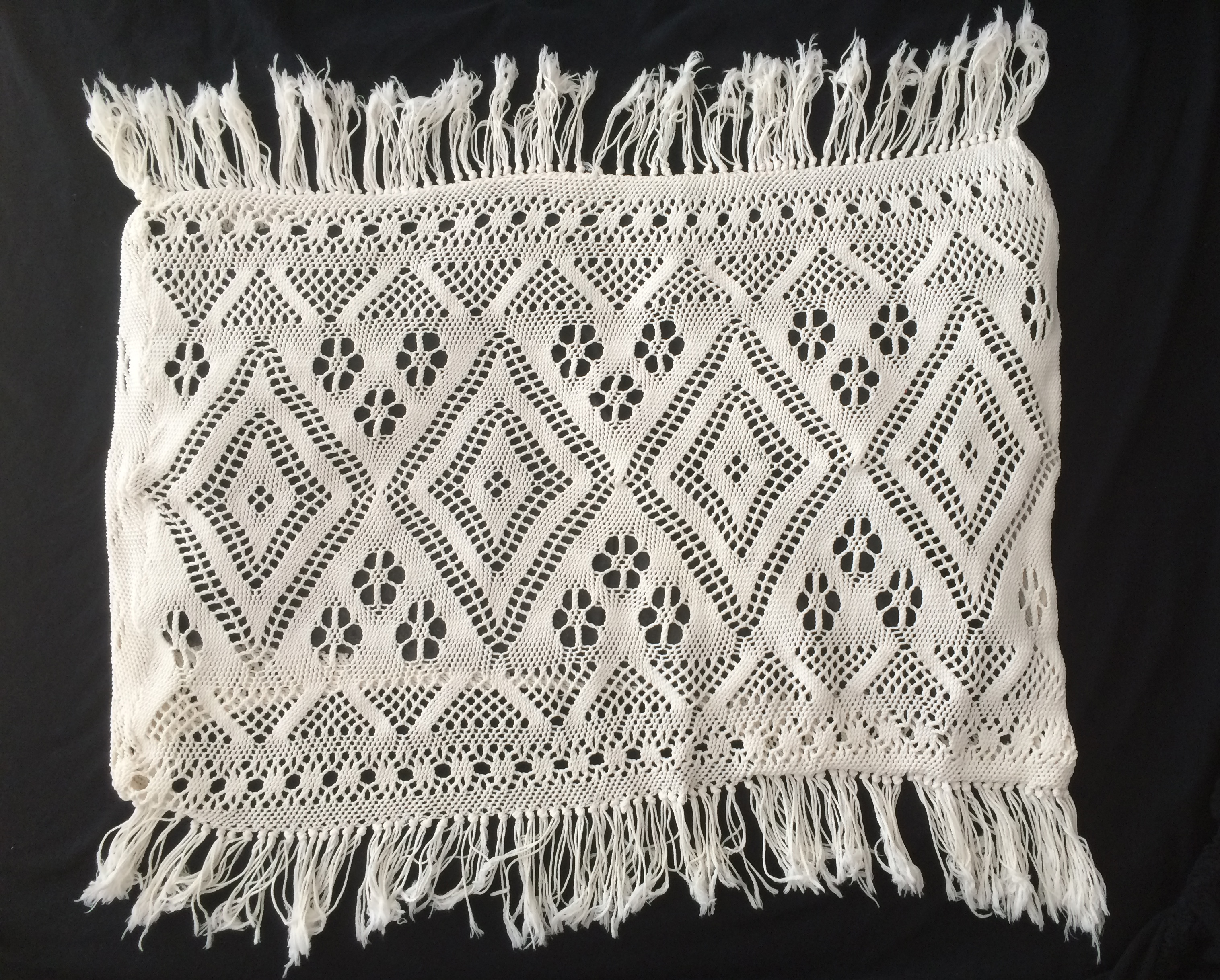 A decorative pillowcase (probably for a cushion) in the sprang technique. Norway 20th century